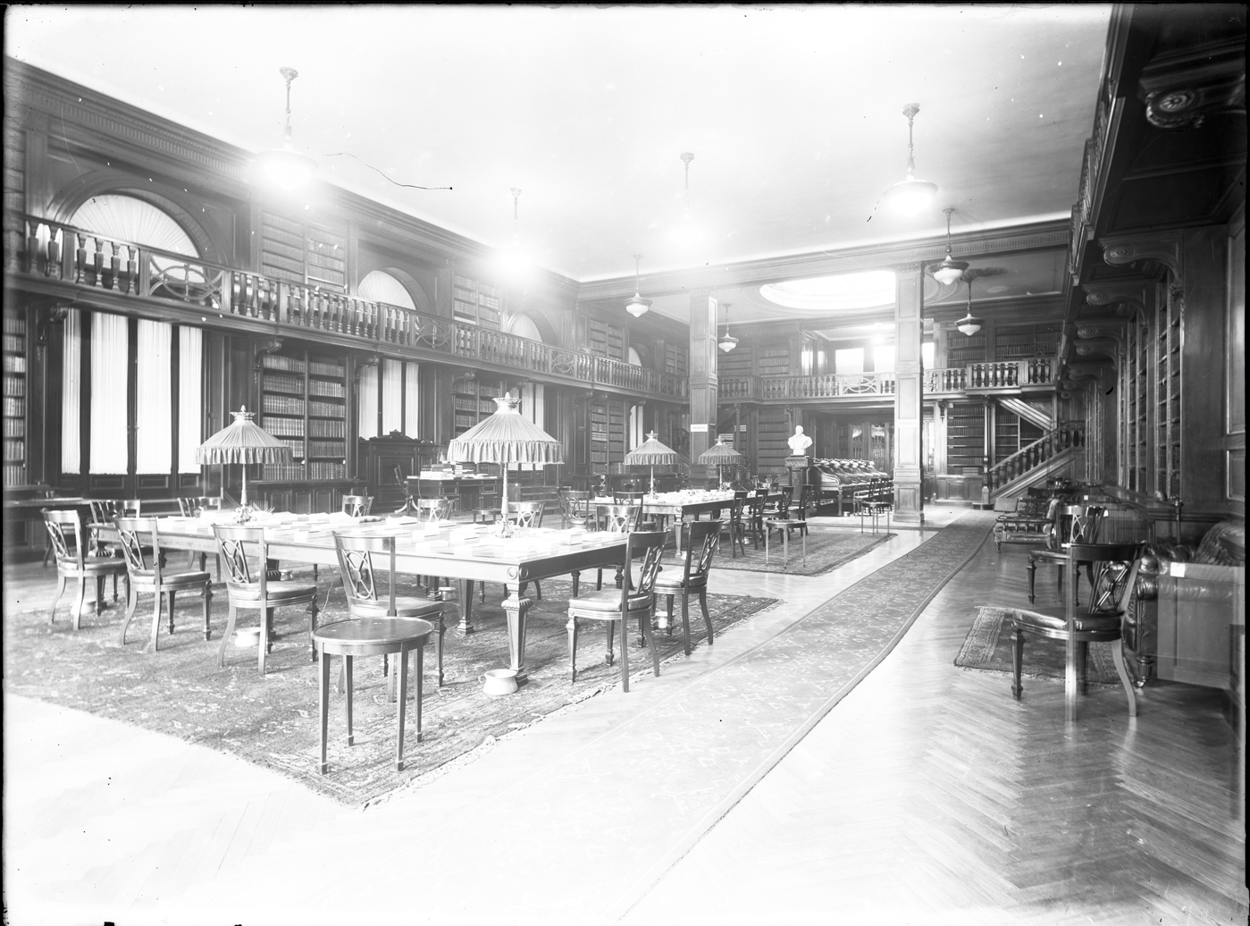 Library of the Jockey Club in Buenos Aires, sited on Florida street.